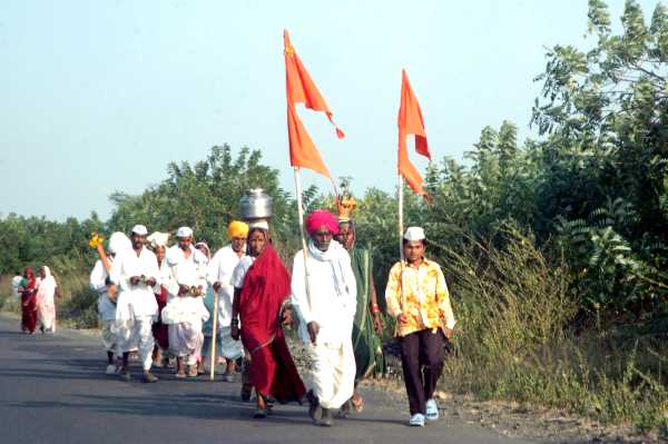 Train of pilgrims, carrying orange flags and pots, in Maharashtra, India.